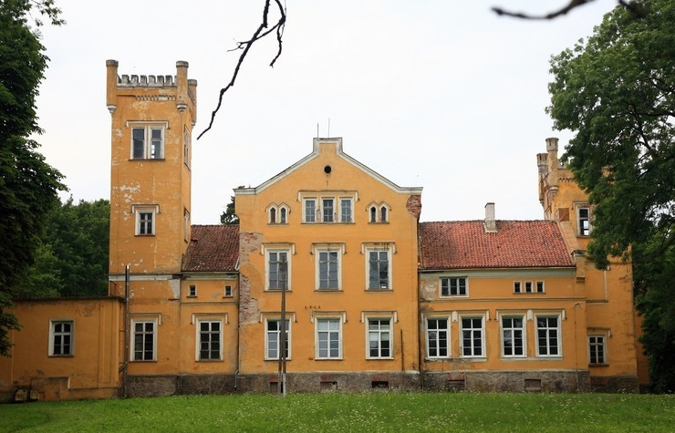 Poland, Jegławki Palace